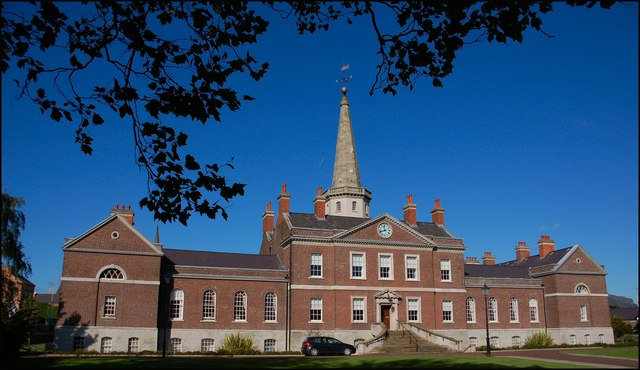 Clifton House, Belfast. Generally regarded as the oldest building in Belfast, Clifton House was built in 1771-74 as "The Charitable Society's Poor House and Infirmary". Continue to 1731157.